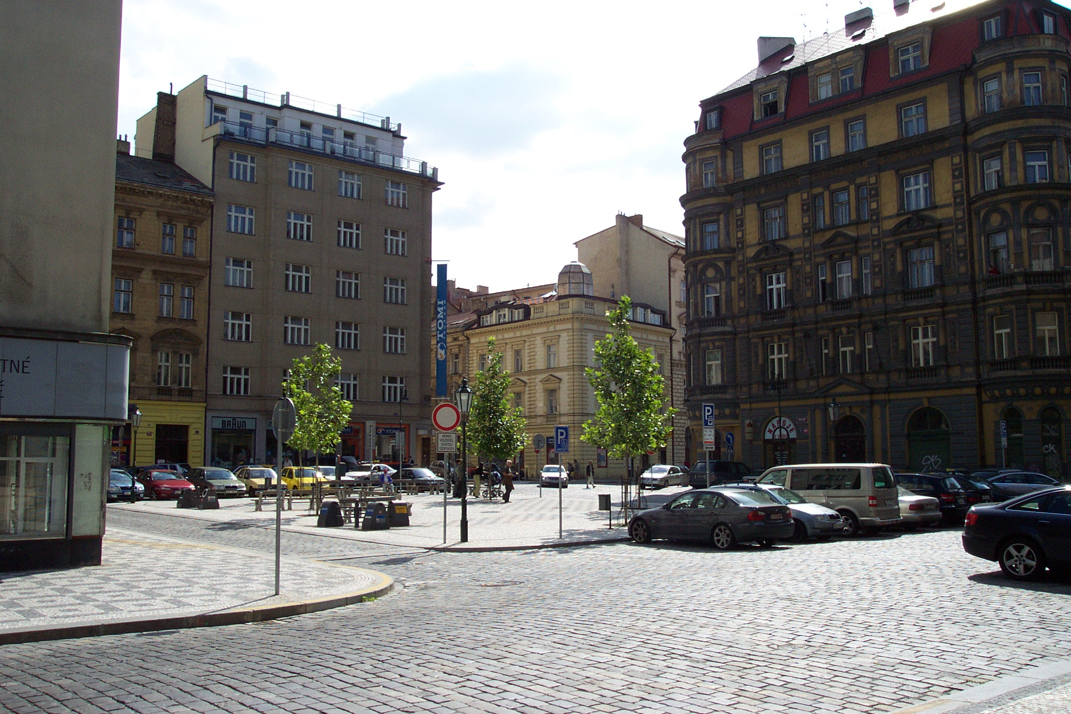 Petrské náměstí square (Peter's square) in Prague